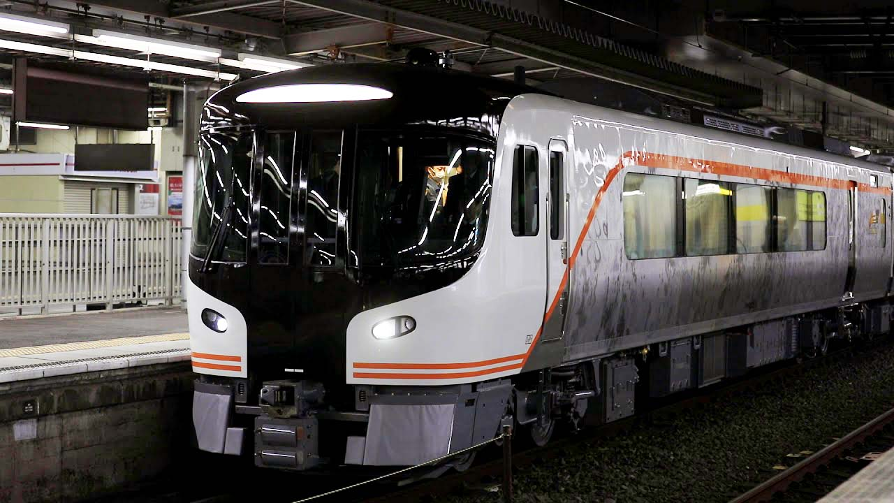 First set of JR Central's HC 85-series diesel-electric hybrid multiple unit train on a test run, departing Toyohashi Station